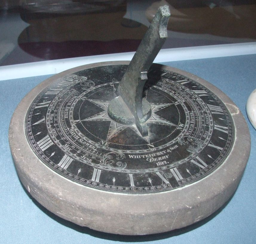 1812 sundial made by Whitehurst & Son of Derby and set for Belper